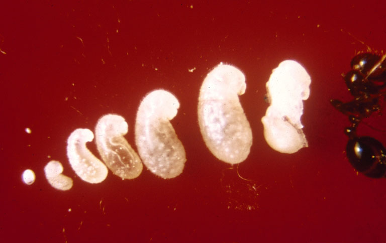 Life cycle of the red imported fire ant (Solenopsis invicta)